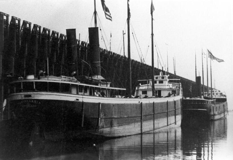 The steamer Australasia at an ore dock